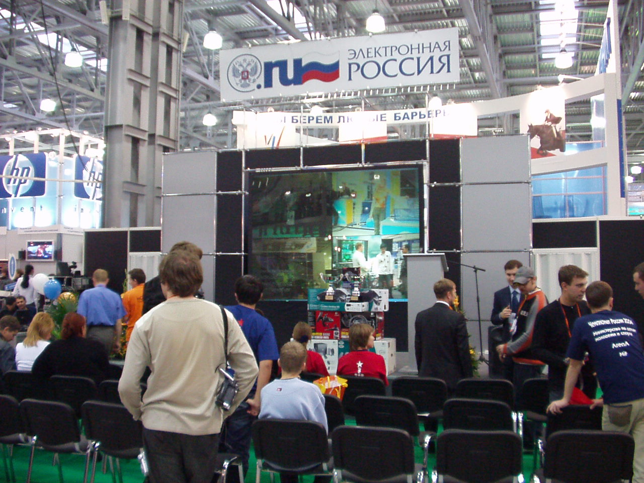 Electronic Russia stand on InfoCom-2004 telecom exhibit